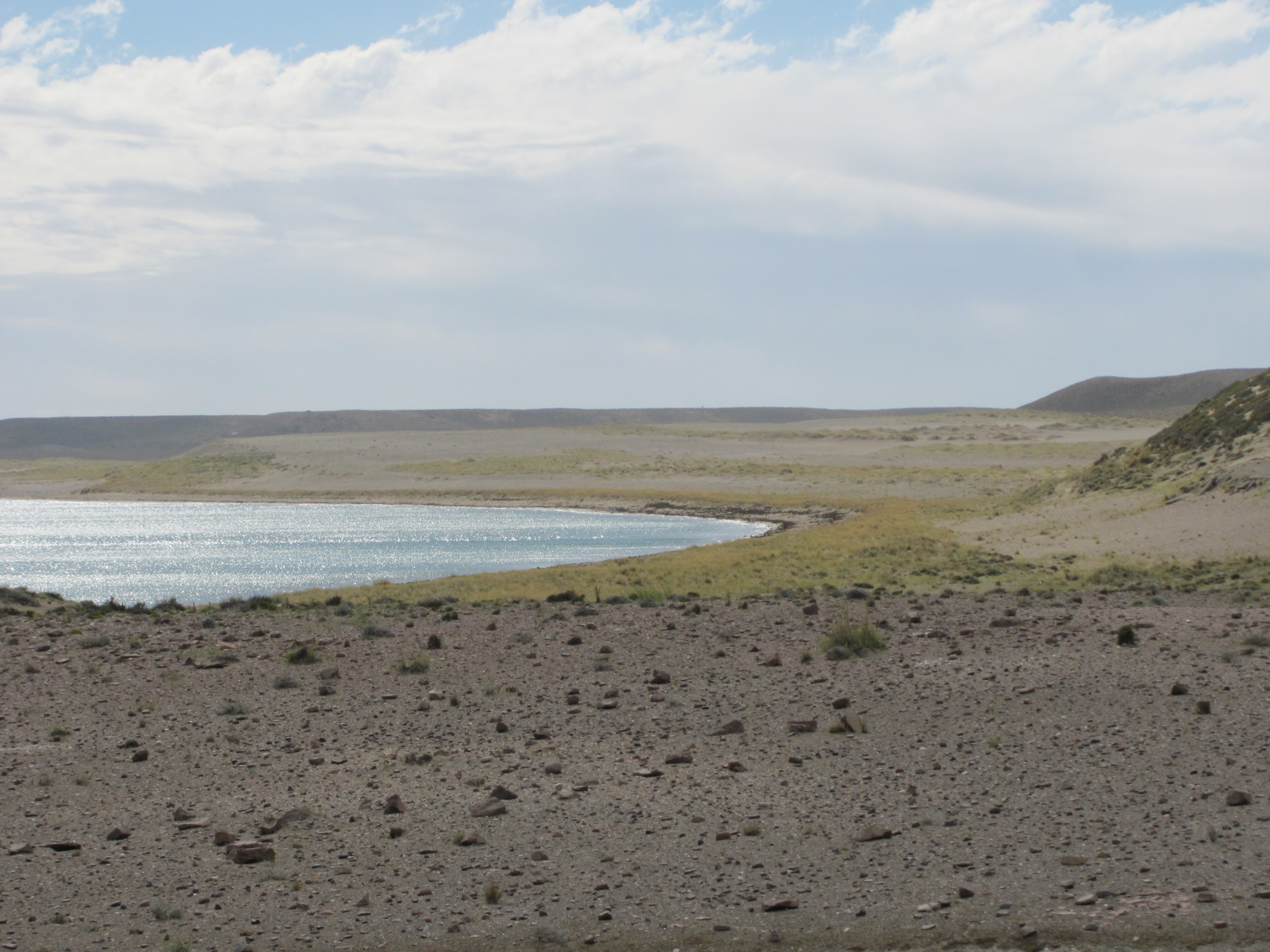 view of Isla Lobos beach (Santa Cruz, Argentina)